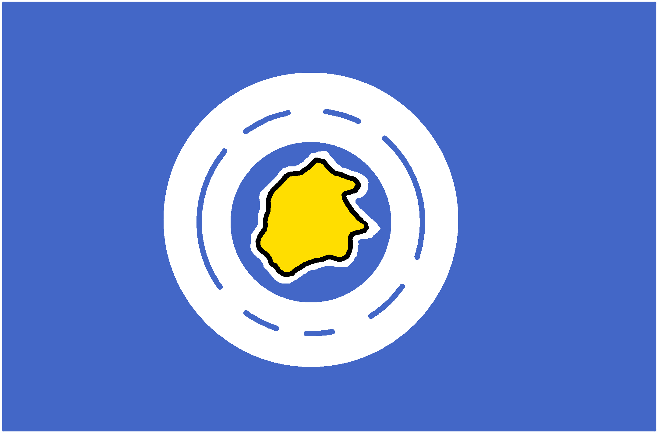 Flag of Ngeremlengui State Palau